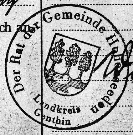 Seal of Hohenseeden, Germany